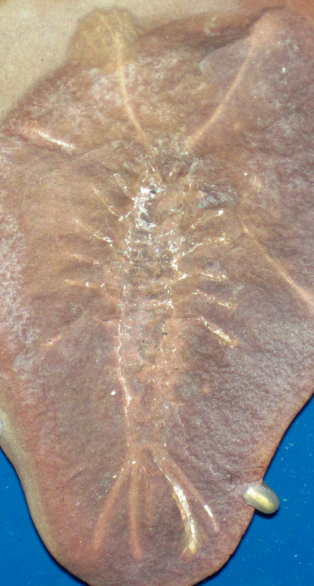 Acanthotelson stimpsoni Meek & Worthen, 1865 fossil shrimp from the Pennsylvanian of Illinois, USA (public display, FMNH PE 37647, Field Museum of Natural History, Chicago, Illinois, USA). One of the most remarkable soft-bodied fossil deposits (lagerstätten) on Earth is the Pennsylvanian-aged Mazon Creek Lagerstätte near Chicago, Illinois. In the Mazon Creek area, the Francis Creek Shale consists of concretionary gray shales. The Francis Creek concretions are composed of argillaceous ironstone, and can be fossiliferous or nonfossiliferous. The fossiliferous concretions contain land plants and terrestrial & marine animals, including nonmineralizing organisms. This Acanthotelson stimpsoni specimen is a dorso-ventrally compressed fossil shrimp in a Mazon Creek concretion. Classification: Animalia, Arthropoda, Crustacea, Eumalacostraca, Syncarida, Acanthotelsonidae Stratigraphy: Mazon Creek Lagerstätte, Francis Creek Shale Member, Carbondale Formation, Desmoinesian Stage (= Westphalian D), upper Middle Pennsylvanian Locality: coal mine dump pile near Essex, northern Illinois, USA